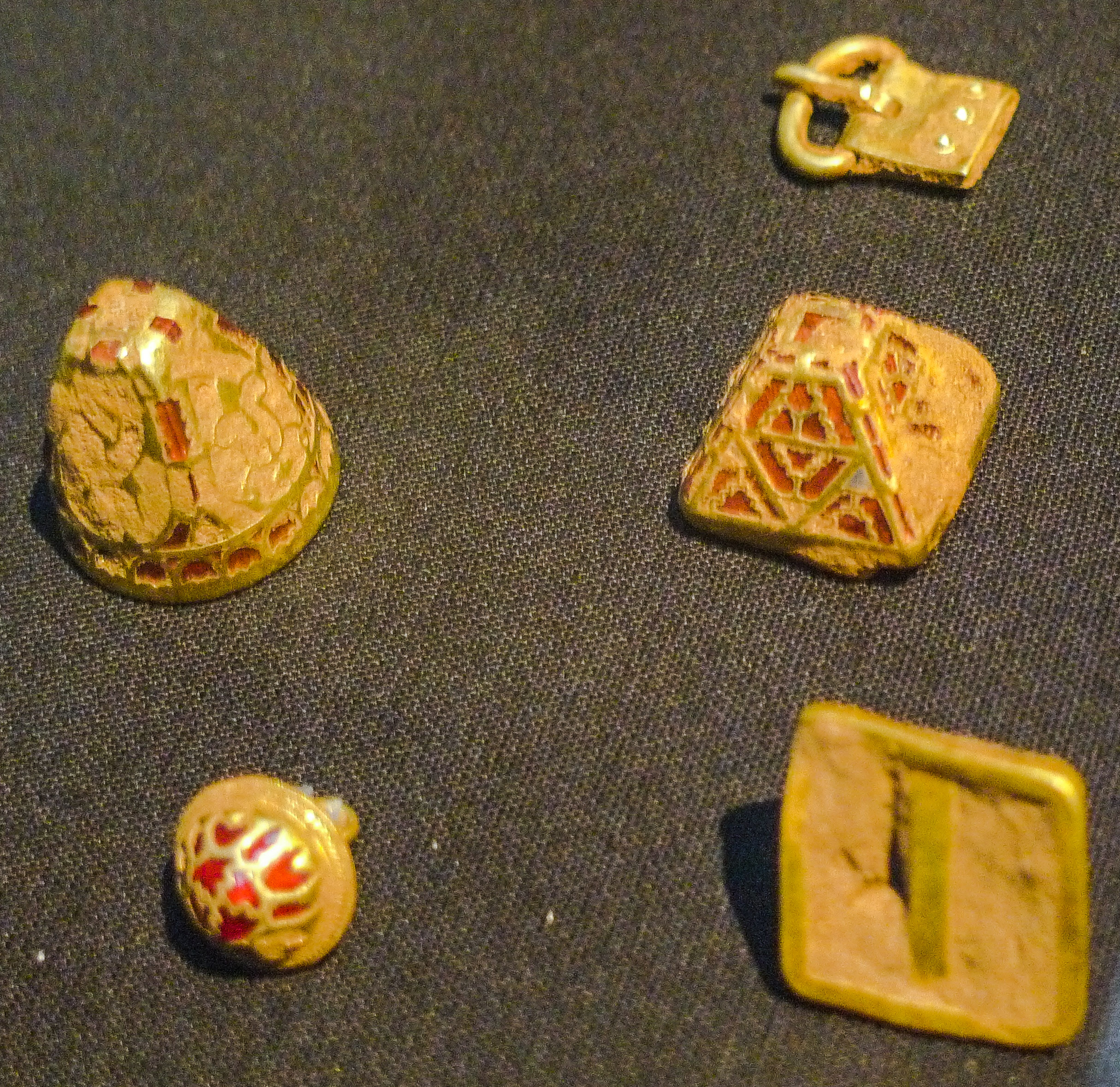 Staffordshire Hoard Pommel Caps